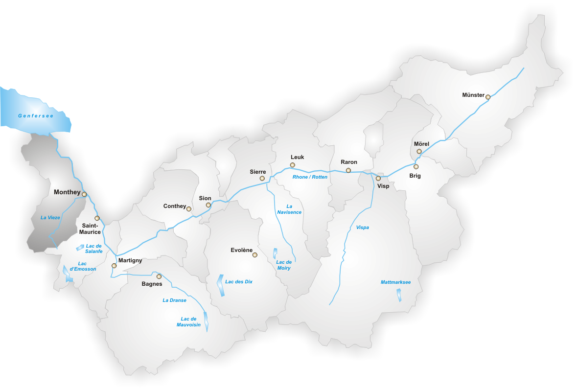 District Monthey